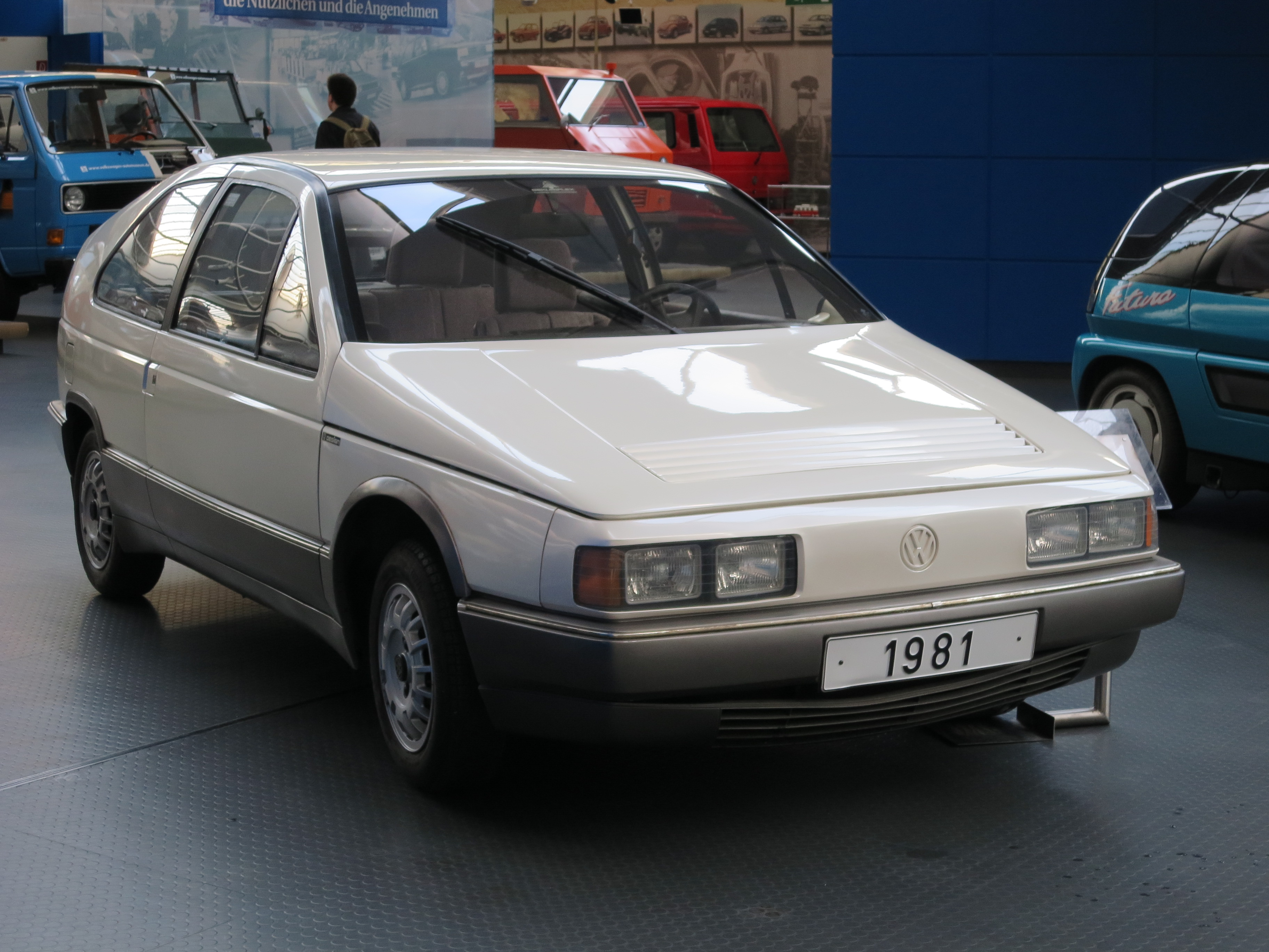 Volkswagen Auto 2000 prototype first presented at the Frankfurt show in 1981 featuring a small fuel efficient 3-cylinder diesel engine and various futuristic fuel saving devices